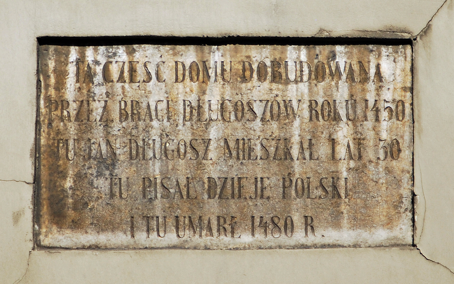 Commemorative plaque in tribute to Jan Długosz (1880), 25 Kanonicza street, Old Town, Krakow, Poland